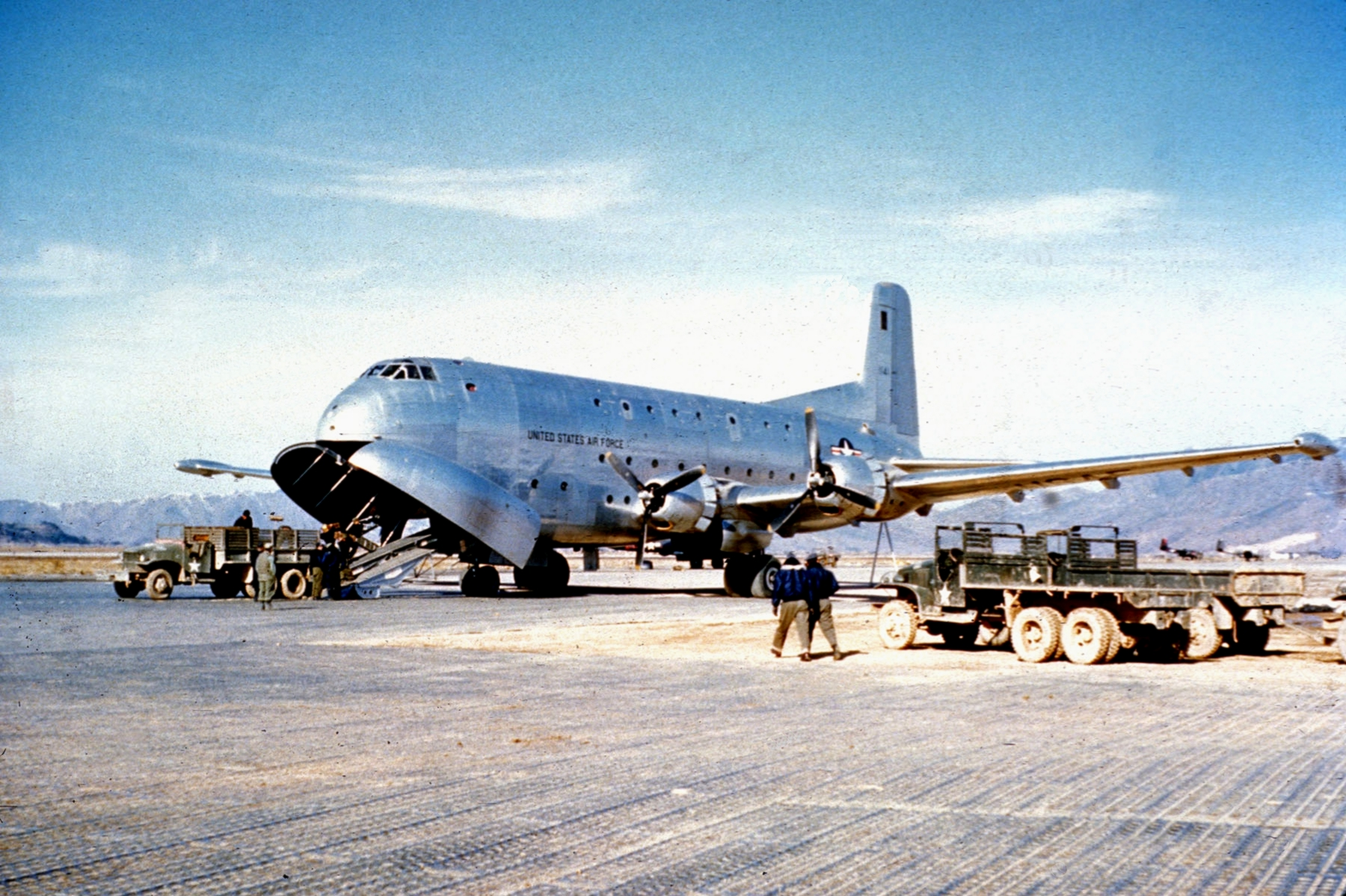 A U.S. Air Force Douglas C-124A Globemaster II (s/n 49-241) on an airfield in Korea. Note the B-26 Invader bombers in the background.